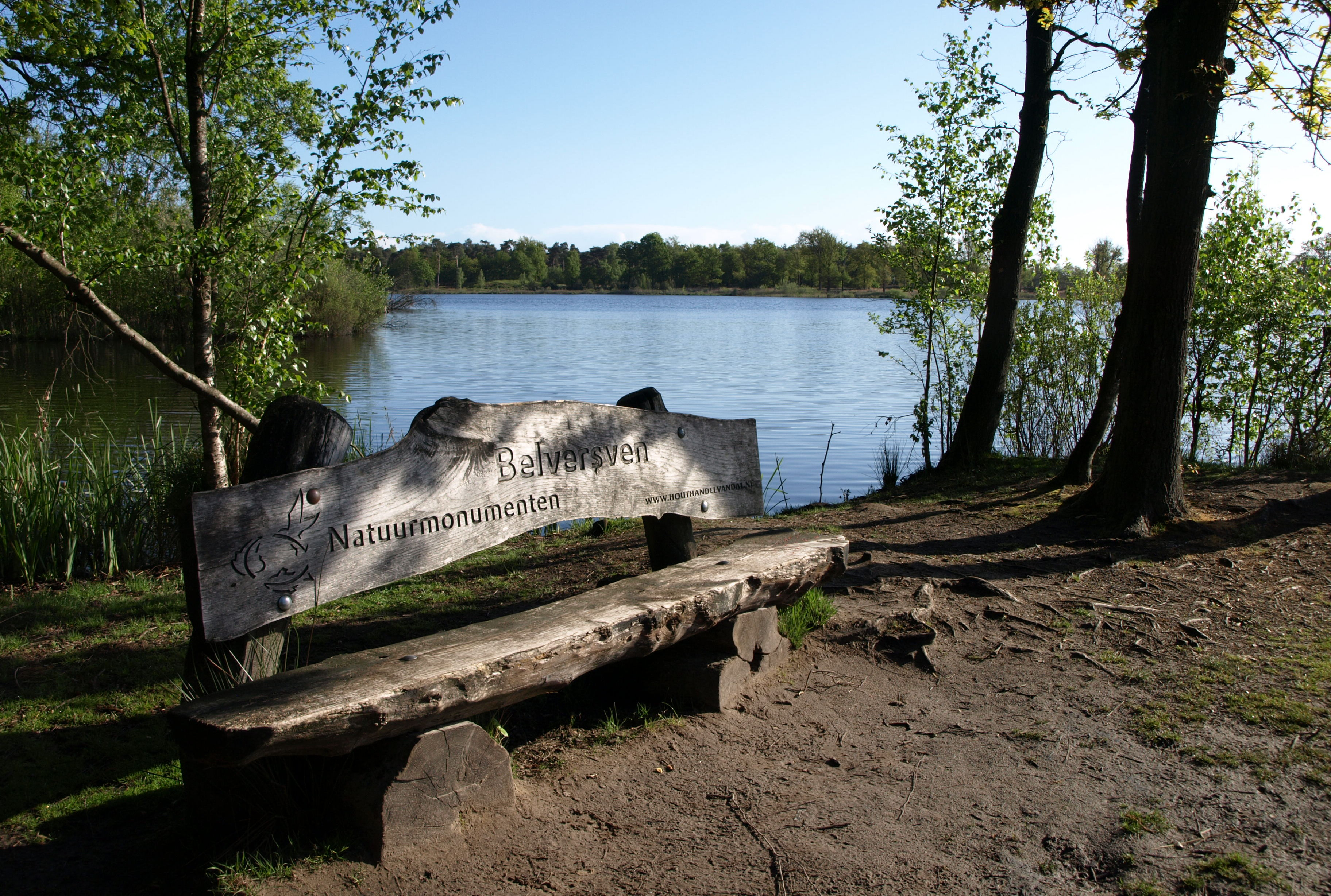 Belversven, part of nature reserve Kampina, Oisterwijk Netherlands; view from the west bank